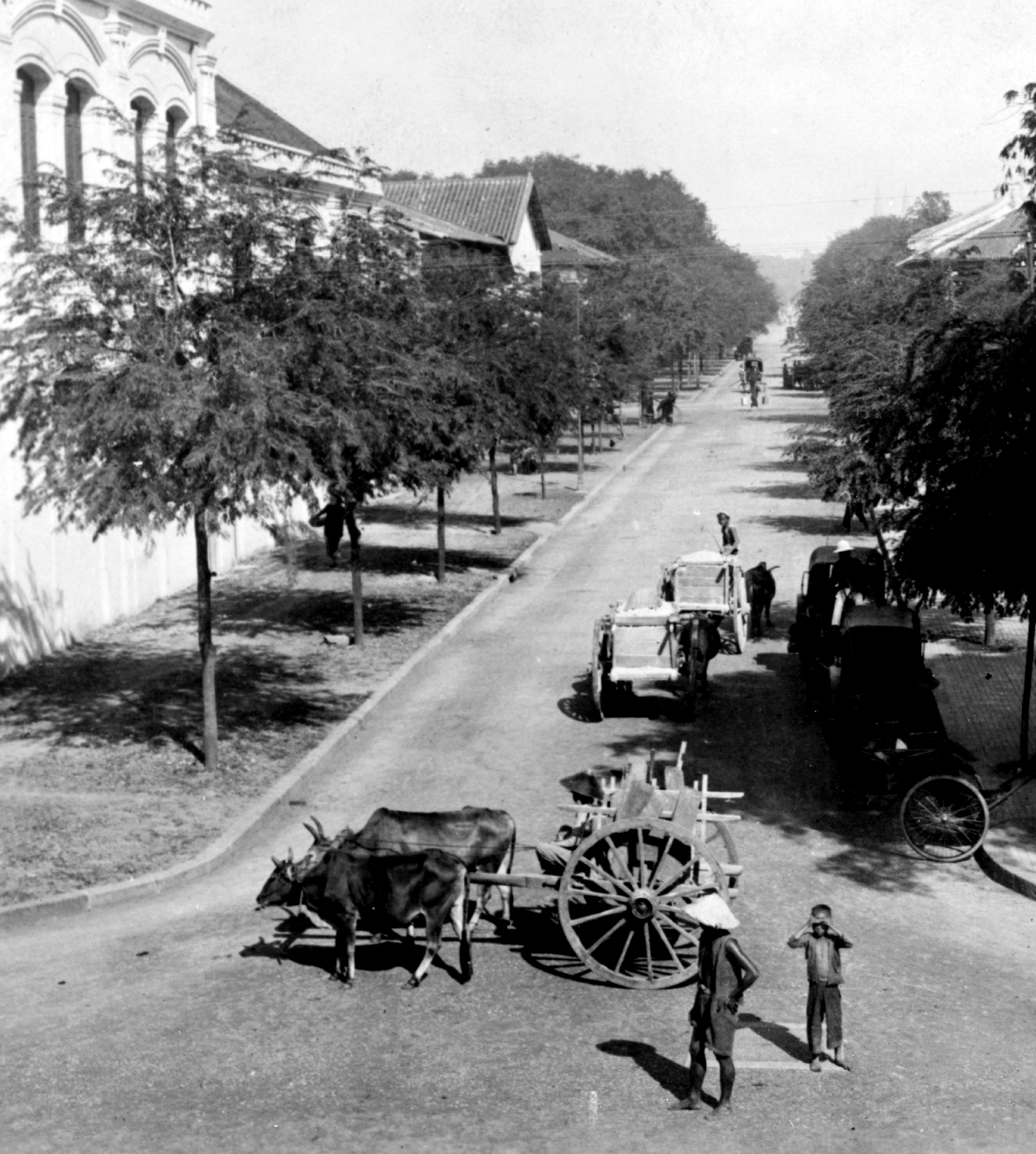 Public Domain. Suggested credit: Underwood/Library of Congress via pingnews. Additional information from source: TITLE: Street in Saigon, capital and commercial centre of French Cochin China CALL NUMBER: STEREO FOREIGN GEOG FILE - Viet Nam [P&P] REPRODUCTION NUMBER: LC-USZ62-120617 (b&w film copy neg. of half stereo) No known restrictions on publication. MEDIUM: 1 photographic print on stereo card : stereograph. CREATED/PUBLISHED: New York, N.Y. : Underwood & Underwood, c1915. CREATOR: Underwood & Underwood. NOTES: J200166 U.S. Copyright Office. Copyright by Underwood & Underwood. U-90876. No. 11713. SUBJECTS: Streets--Vietnam--Ho Chi Minh City--1910-1920. FORMAT: Photographic prints 1910-1920. Stereographs 1910-1920. REPOSITORY: Library of Congress Prints and Photographs Division Washington, D.C. 20540 USA DIGITAL ID: (b&w film copy neg.) cph 3c20617 CARD #: 98507482